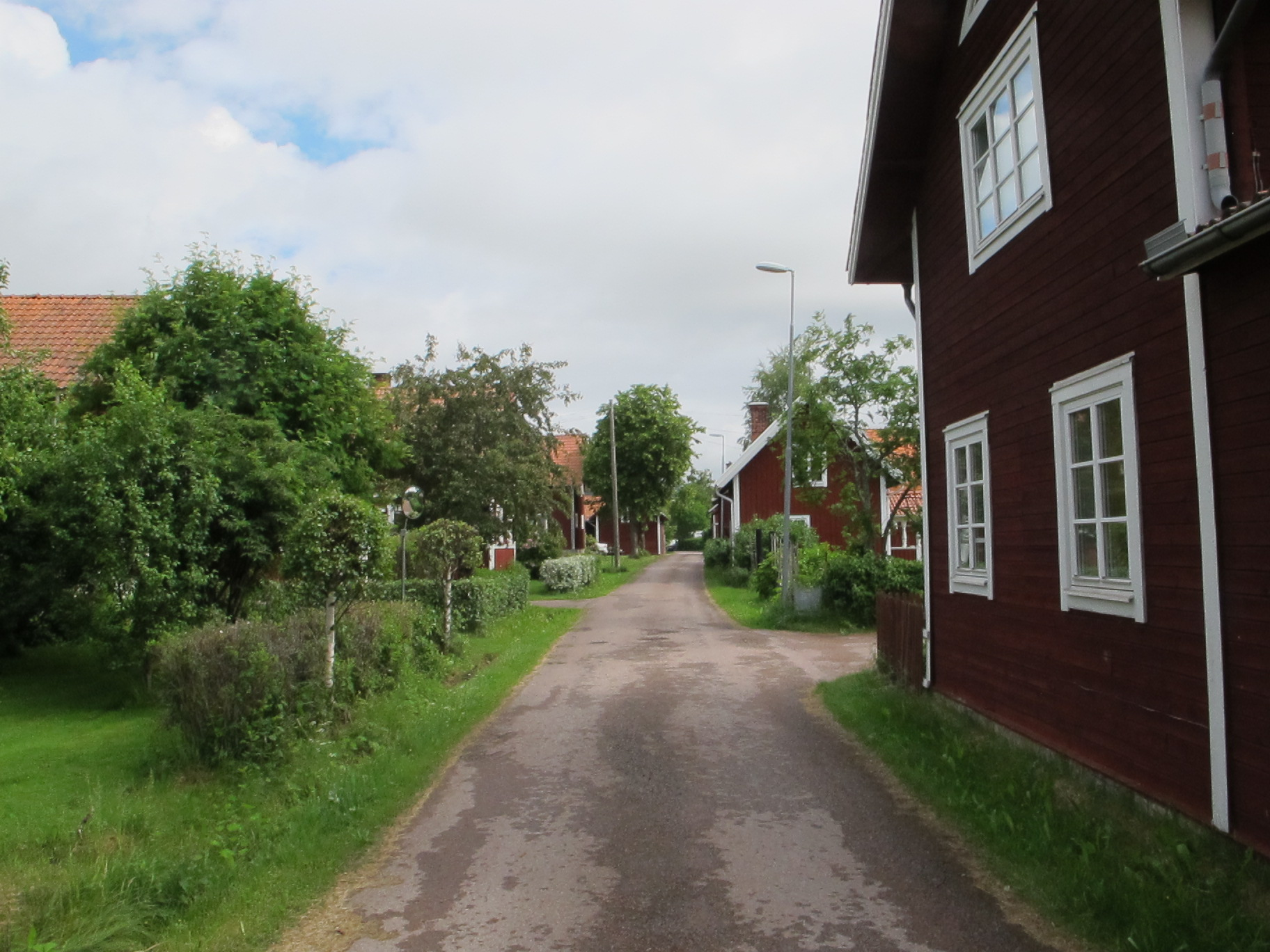 Södra Moje, Gattugårdarna